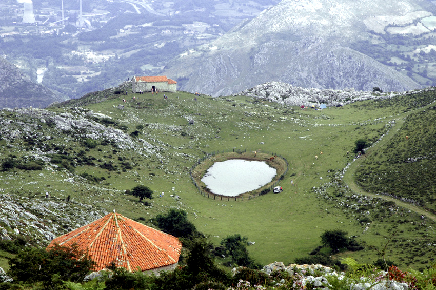 Ref.0241-Monsacro